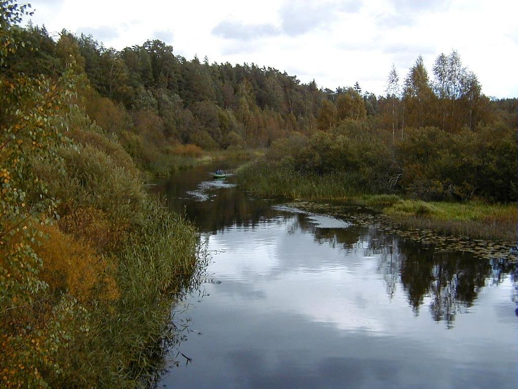 Seda River near Daksti (Latvia)